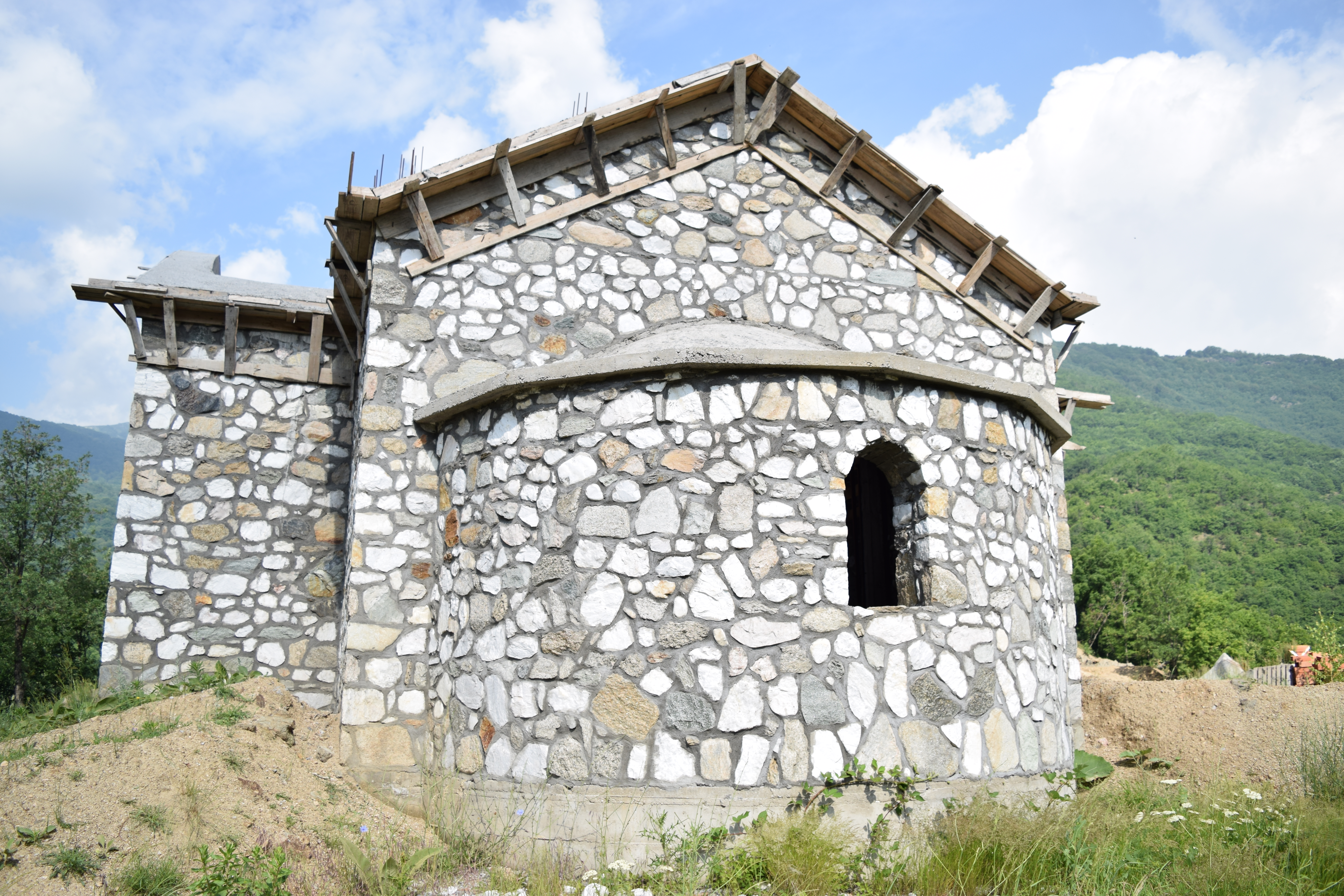 View of the St. Petka Church in the village Nežilovo